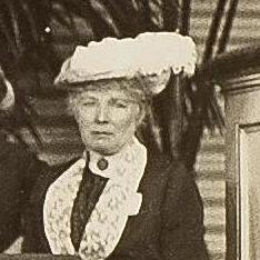 WILPF/2011/18 left to right:1. Lucy Thoumaian - Armenia, 2. Leopoldine Kulka, 3. Laura Hughes - Canada, 4. Rosika Schwimmer - Hungary, 5. Anika Augspurg - Germany, 6. Jane Addams - USA, 7. Eugenie Hanner, 8. Aletta Jacobs - Netherlands, 9. Chrystal Macmillan - UK, 10. Rosa Genoni - Italy, 11. Anna Kleman - Sweden, 12. Thora Daugaard - Denmark, 13. Louise Keilhau - Norway